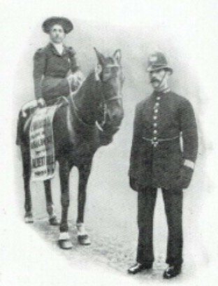 The suffragist Katherine Douglas Smith riding a horse down the Strand in 1908